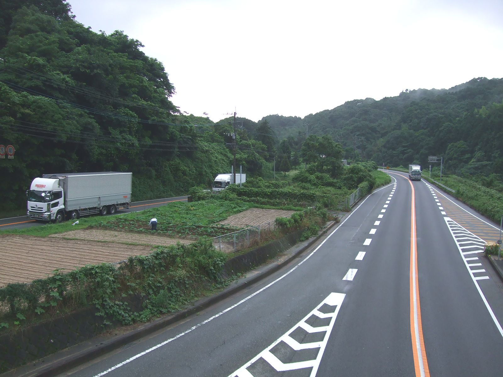 Hiyamizu Toll Road(right) andJapan National Route 200(left)